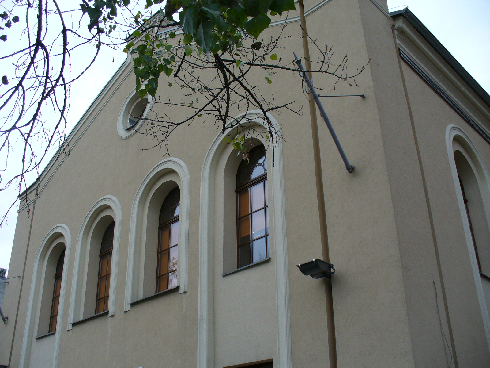 Old Synagogue in Opole